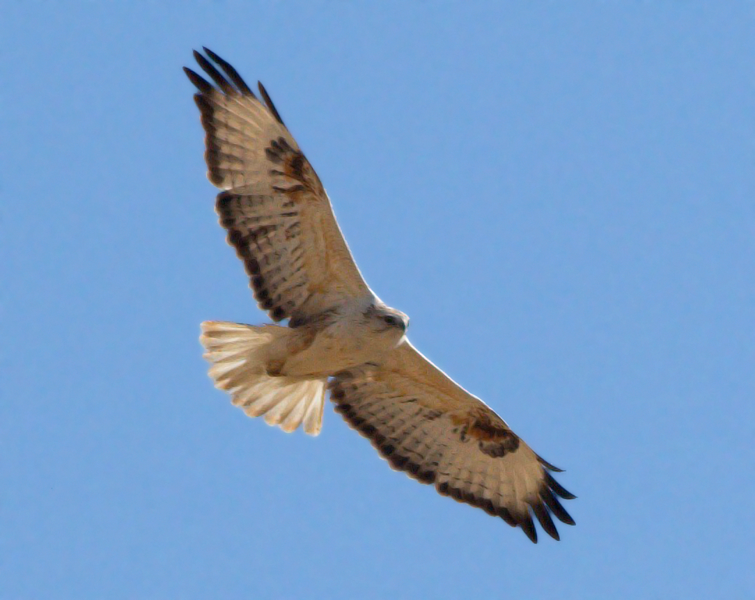 long legged buzzard shot at desert national park